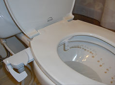 Toilet Integrated Bidet - Simple Bidet